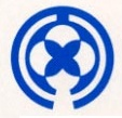 Kanmaki Nara chapter